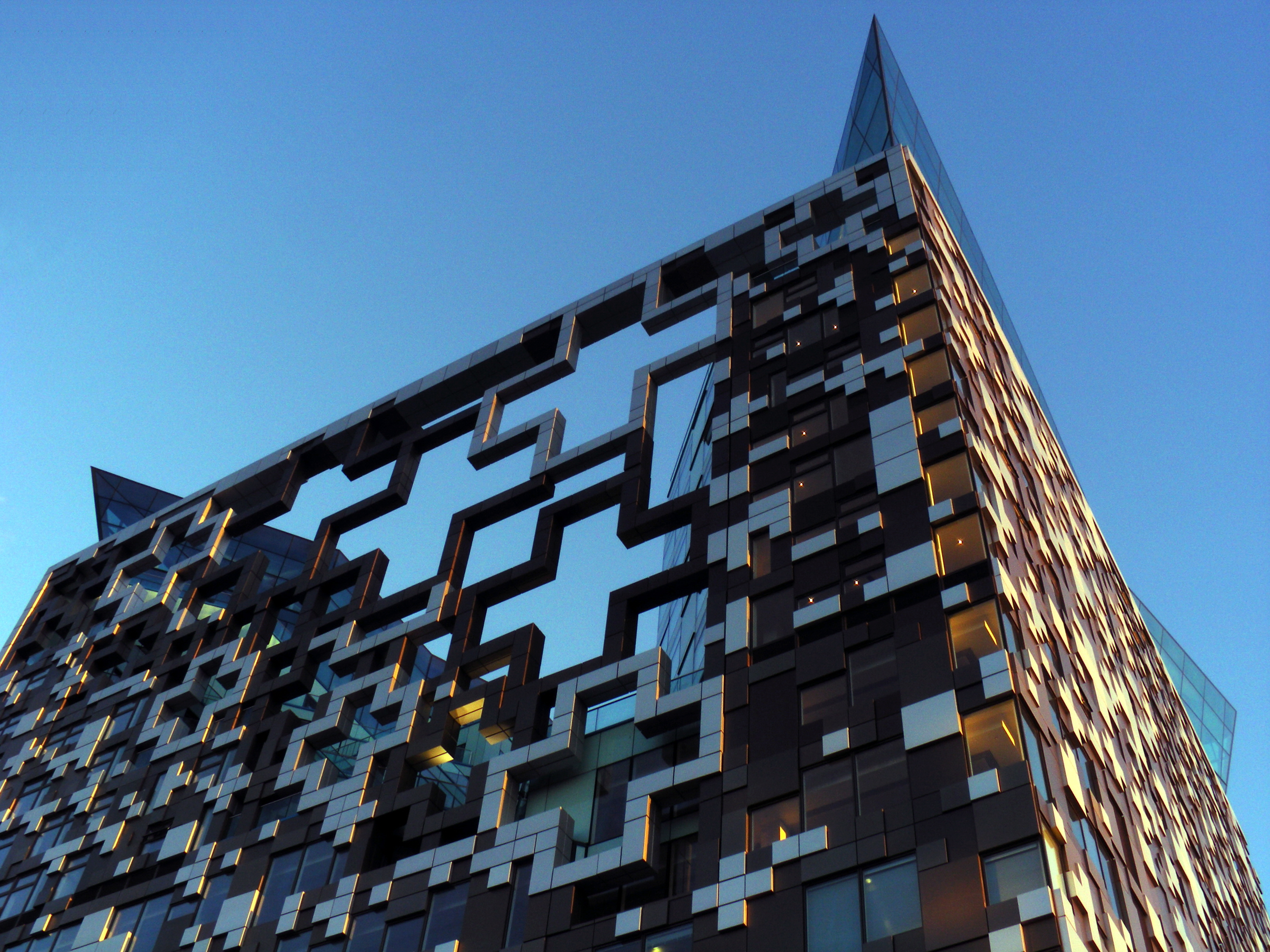 The Cube, Birmingham, canal-side top structure.